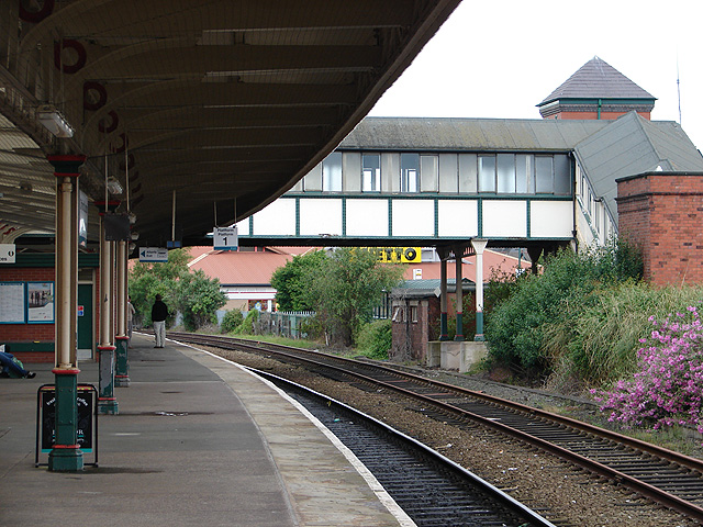 Llandudno Junction Station - 3